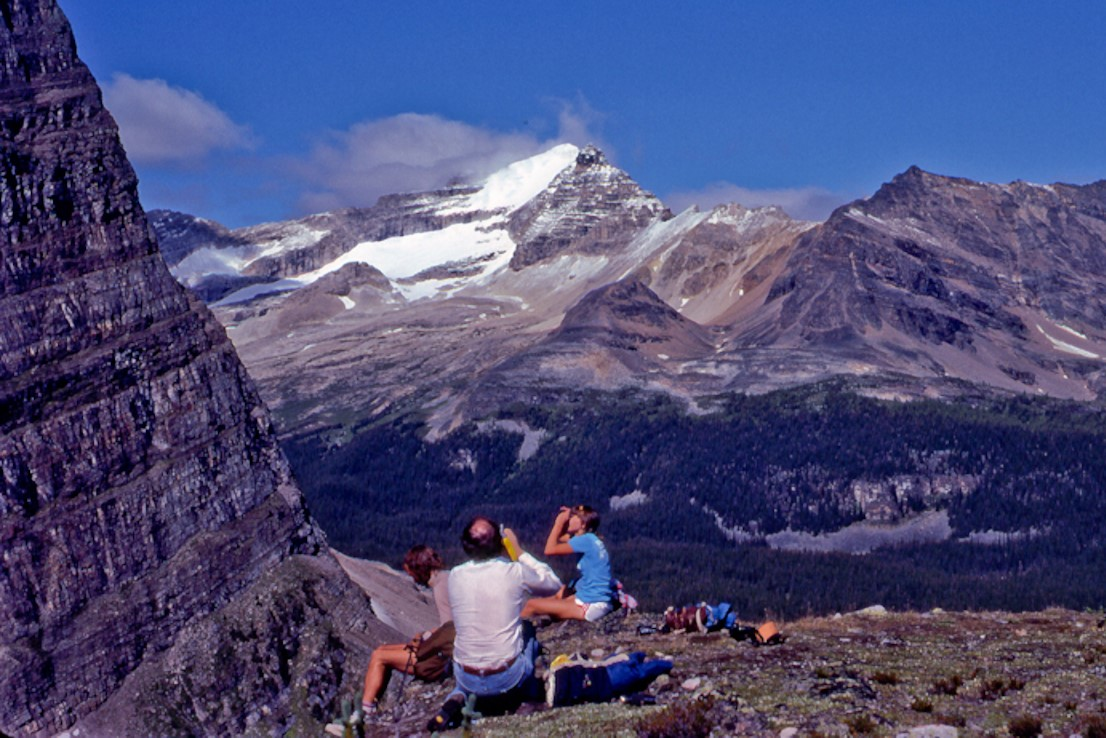 Mt Odaray (left) & Stephen SE1 (1 km at 132⁰ from Stephen's main peak) from Odaray Prospect in the Lake O'Hara area, Yoho National Park, B.C. (Dave, Hal & Linda in foreground) - circa 1988.